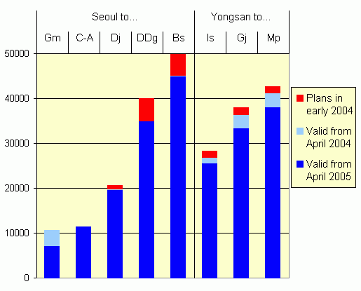 Differential reduction of KTX train fares during the final drafting of the fare system and after the first year of operation